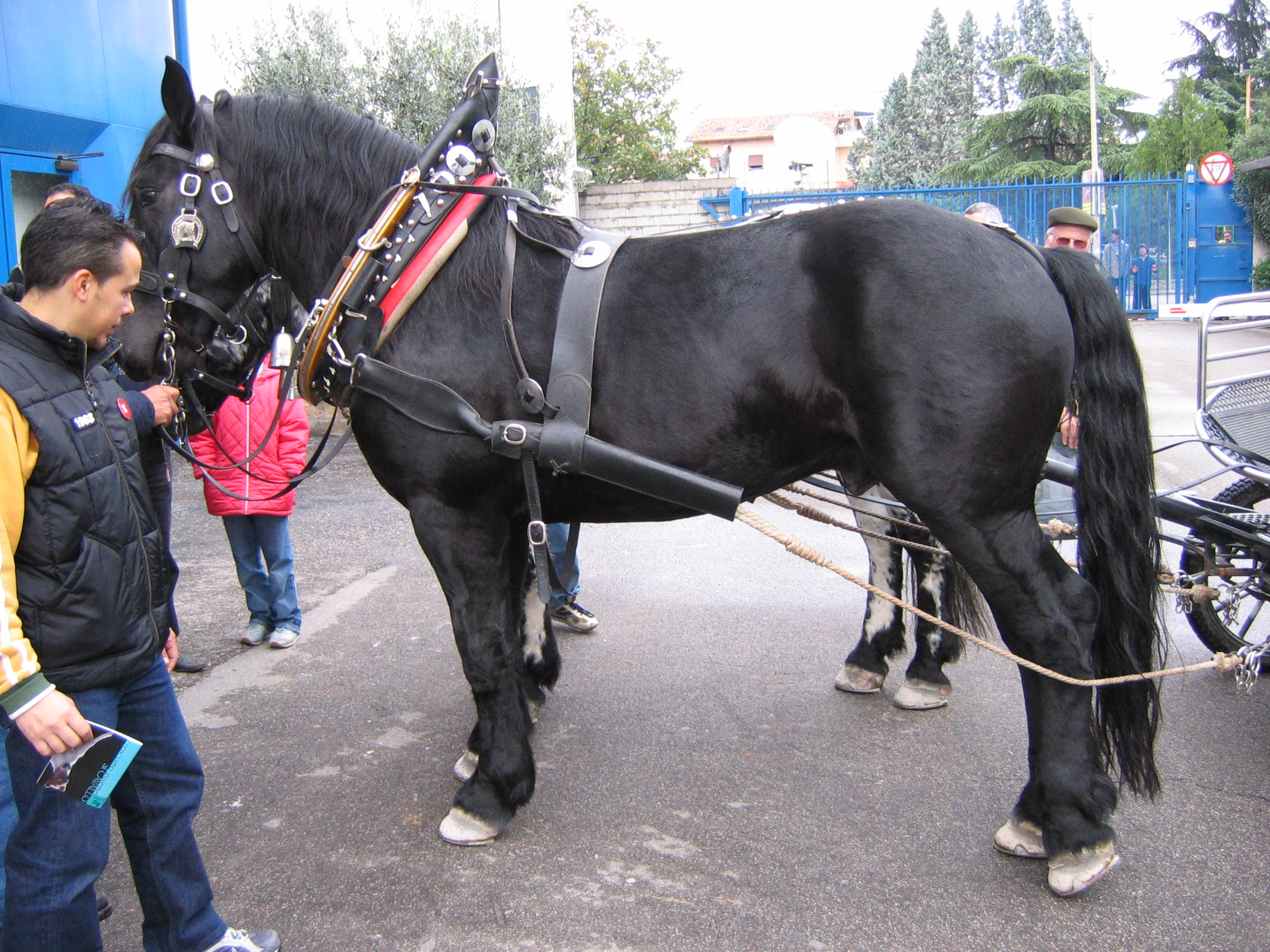 Austrian Noriker horse photographed at the Fieracavalli equestrian fair in Verona, Italy, on 6 November, 2004. Photo taken and released in public domain by Paula Jantunen, Finland.